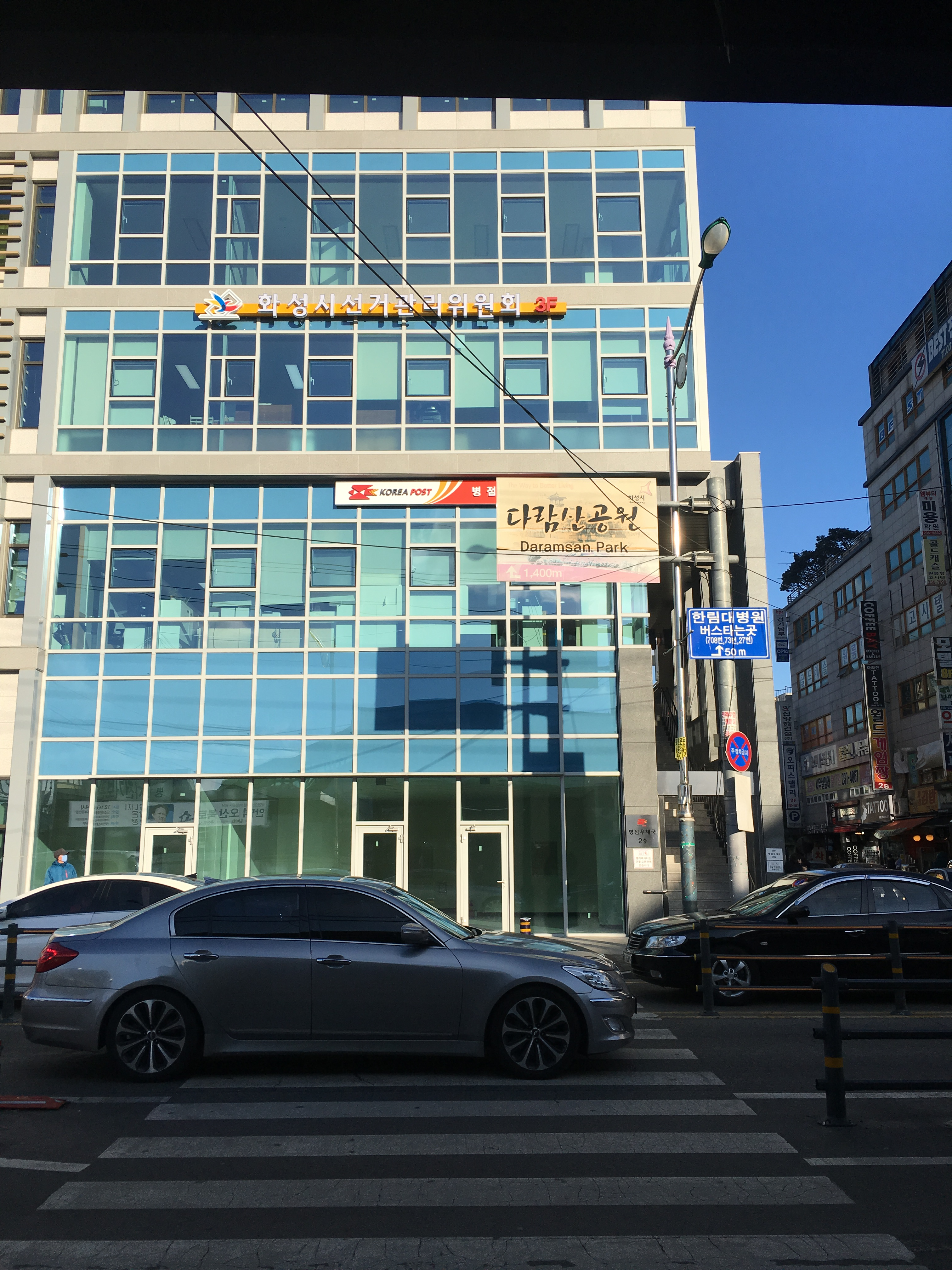 Byeongjeom Post Office